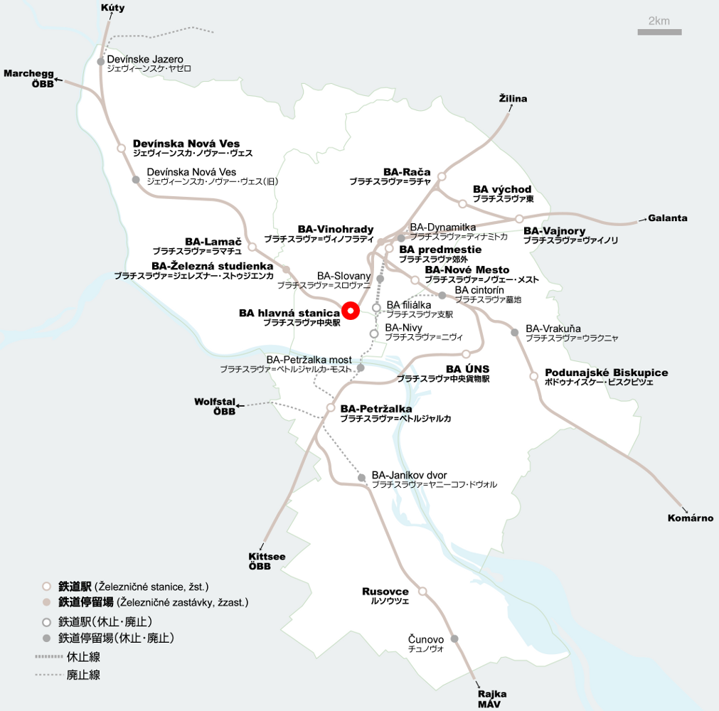 Location map of Železničná stanica Bratislava hlavná stanica with Japanese language